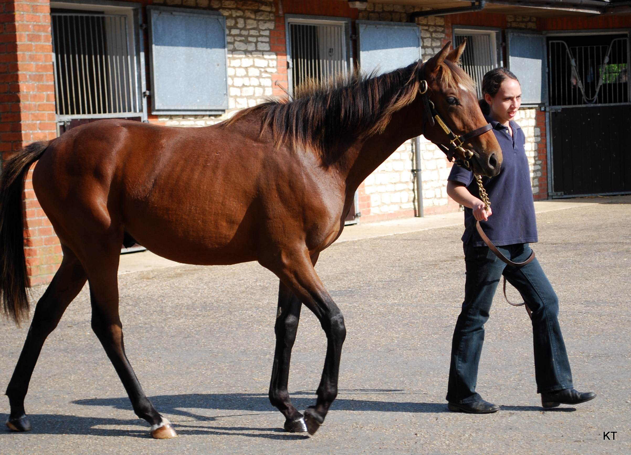 Foaled April 2010. Kirtlington Stud, September 2011.